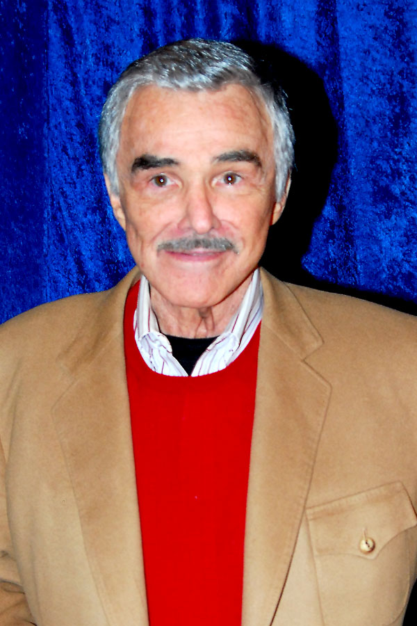 Burt Reynolds Discussion and Signing at Hollywood Blvd Cinema in Woodridge, IL, USA on April 15, 2011. Photo by Adam Bielawski